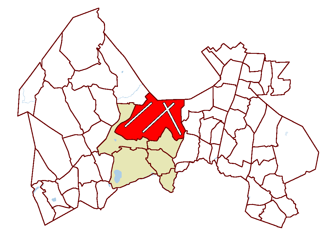 District of Lentokenttä (marked red), within Tikkurila service area (marked light brown) in Vantaa, Finland